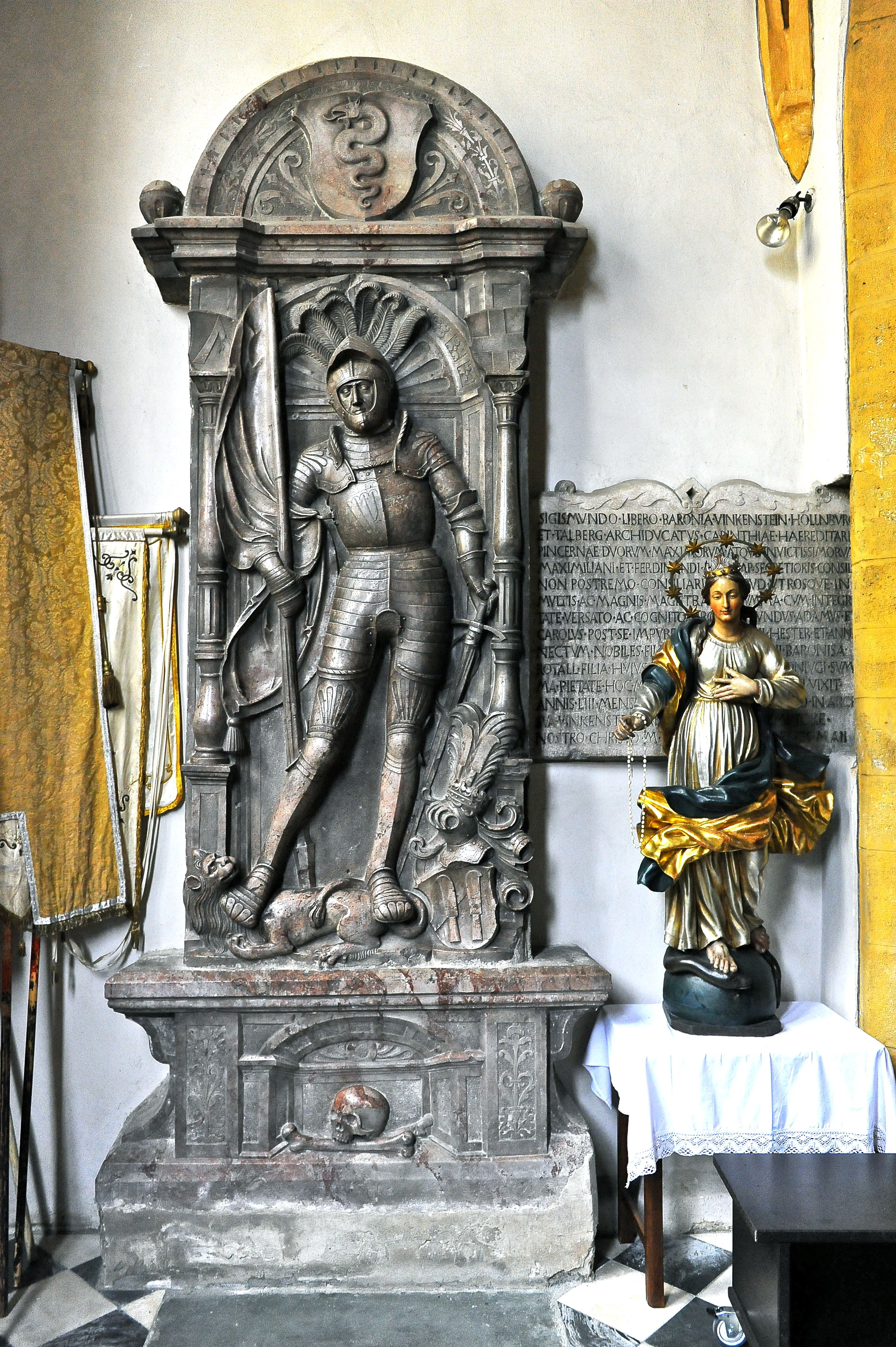 Renaissance epitaph with the relief of Siegmund von Dietrichstein in the Holy Trinity chapel of the main parish church Saint James the Greater in the city Villach, Carinthia, Austria, EU